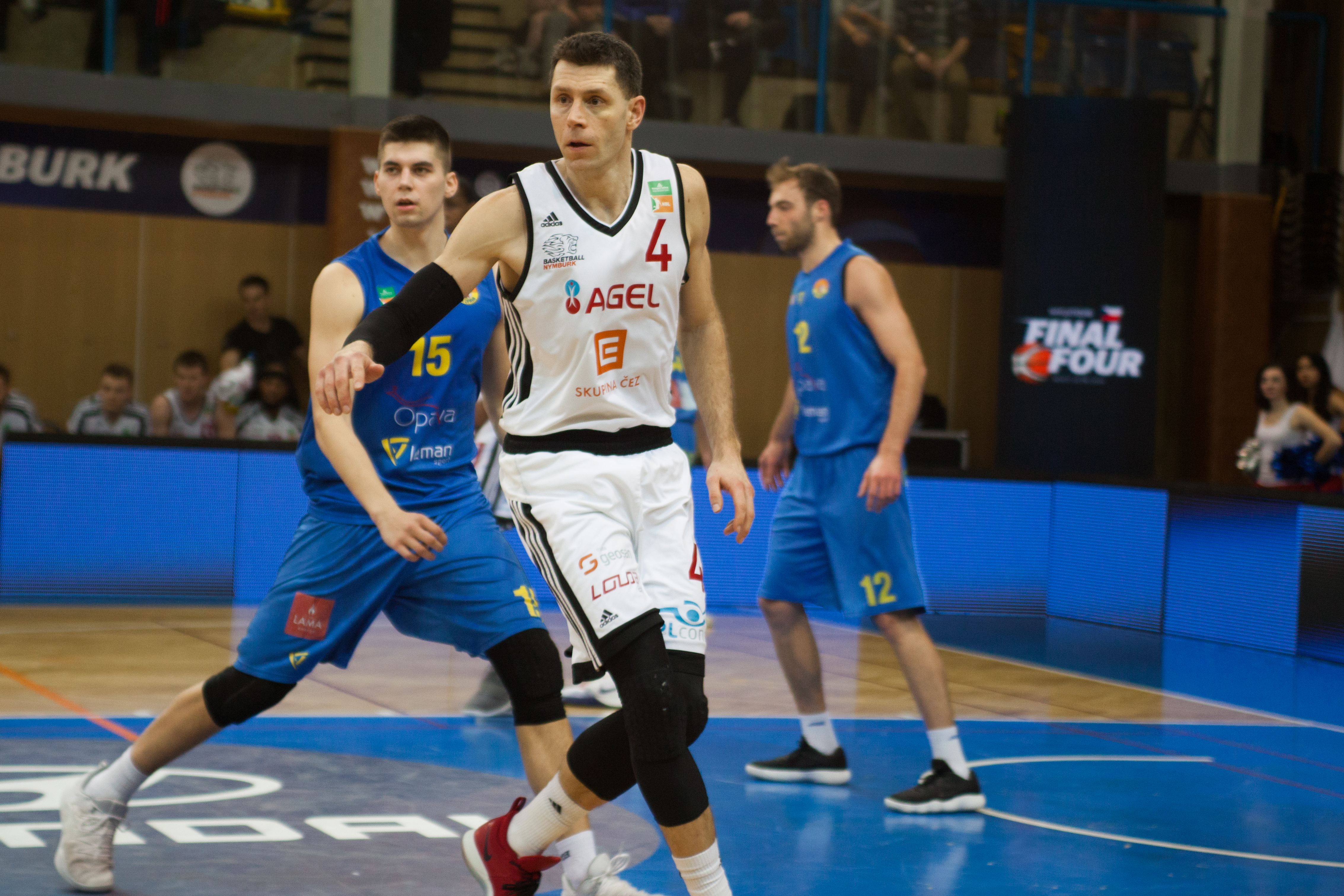 Final match of Czech basketball cup Hyundai Final4 between clubs BK Opava-ČEZ Basketball Nymburk (Nový Jičín, 10 February 2019)